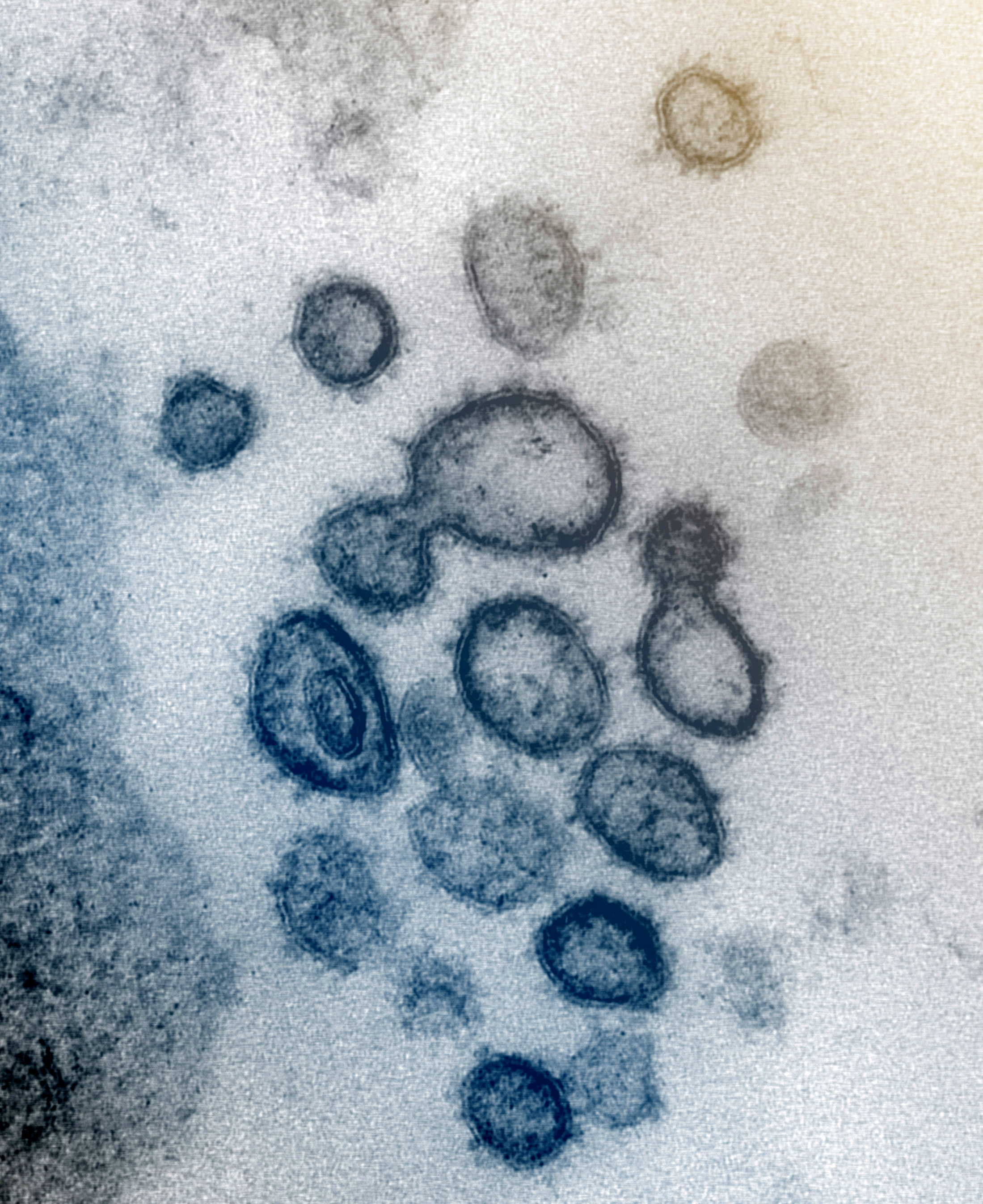 This transmission electron microscope image shows SARS-CoV-2—also known as 2019-nCoV, the virus that causes COVID-19—isolated from a patient in the U.S. Virus particles are shown emerging from the surface of cells cultured in the lab. The spikes on the outer edge of the virus particles give coronaviruses their name, crown-like. Credit: NIAID-RML